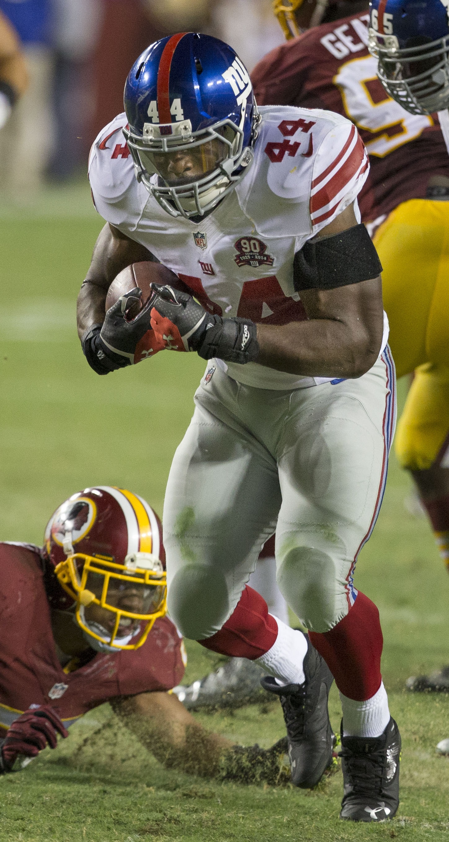 Giants at Redskins 9/25/14